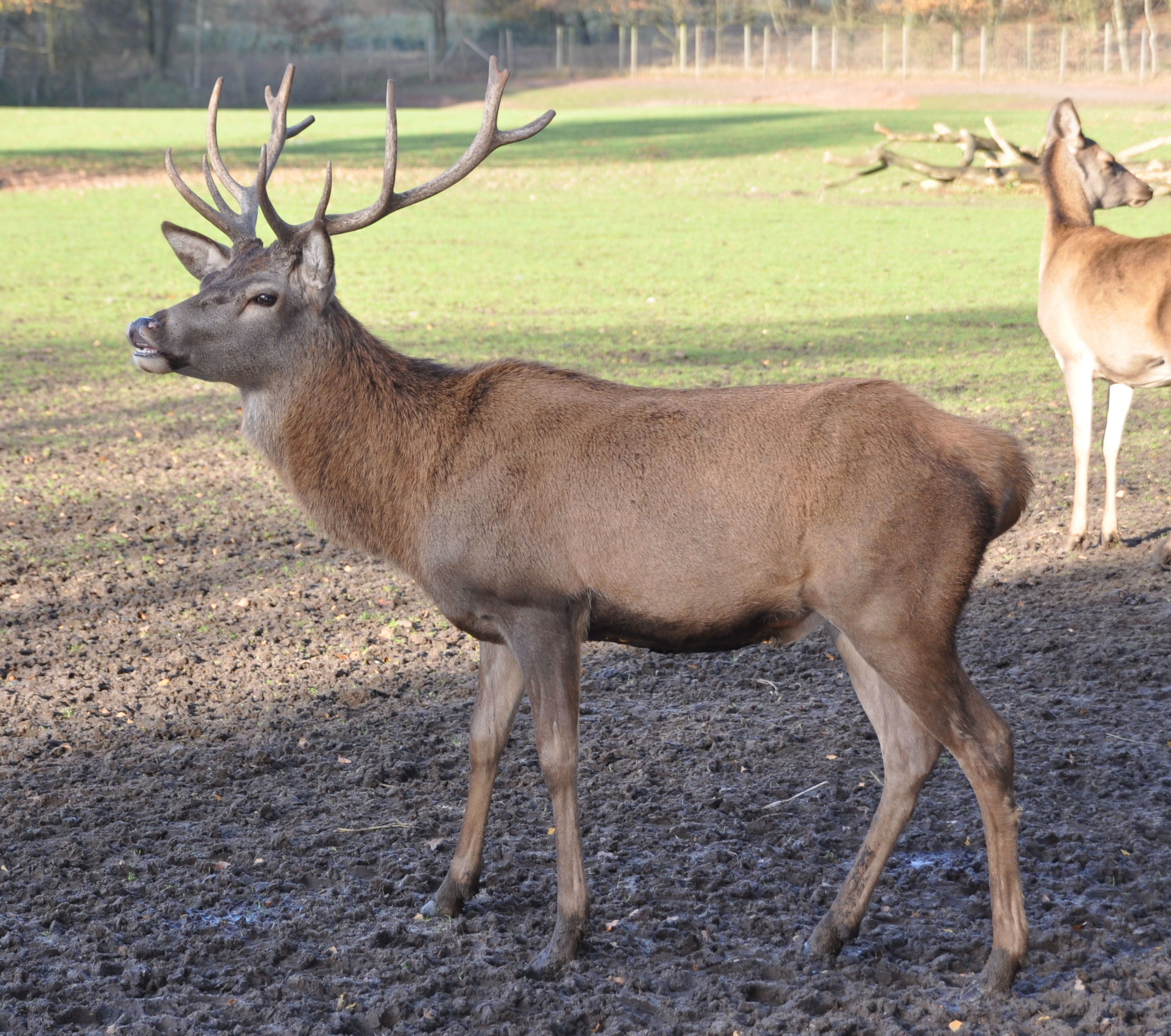 Red Deer (Cervus elaphus) in the Lüneburg Heath wildlife park, Germany.